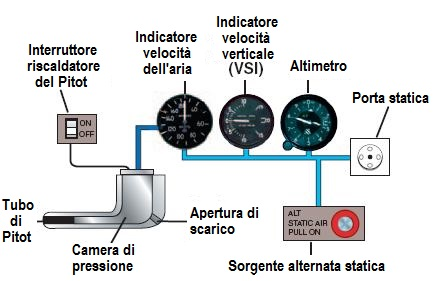 diagram of pitot-static system, including static port and pitot tube as well as the pitot satic instruments.